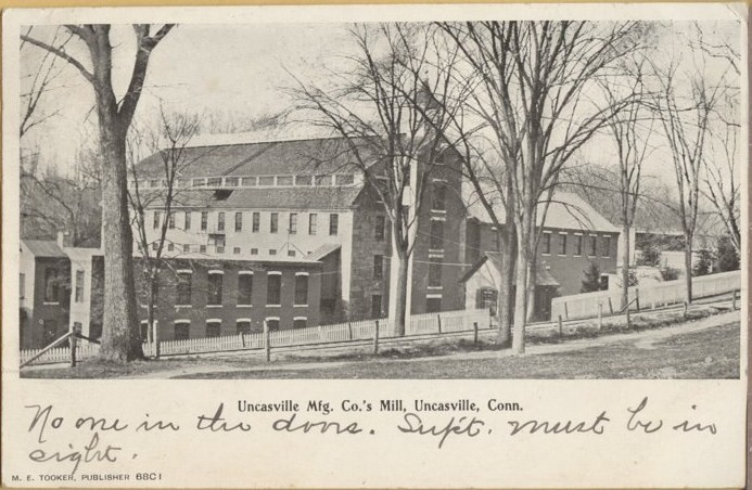 Postcard: Uncasville Manufacturing Company's mill in Uncasville, Connecticut, a part of Montville, Connecticut in New London County. Store Web page states: "Uncasville Mfg, Company MILL~1906". Lower lefthand corner of postcard states: M.E. Tooker, publisher "68C1"